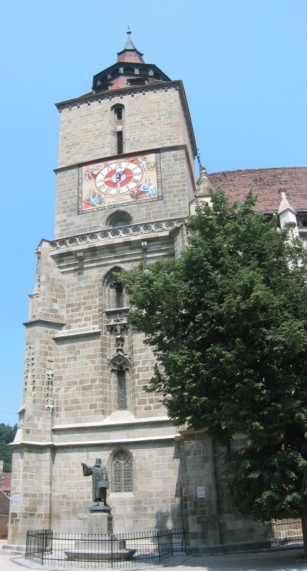 The Black Church in Brasov, Romania.